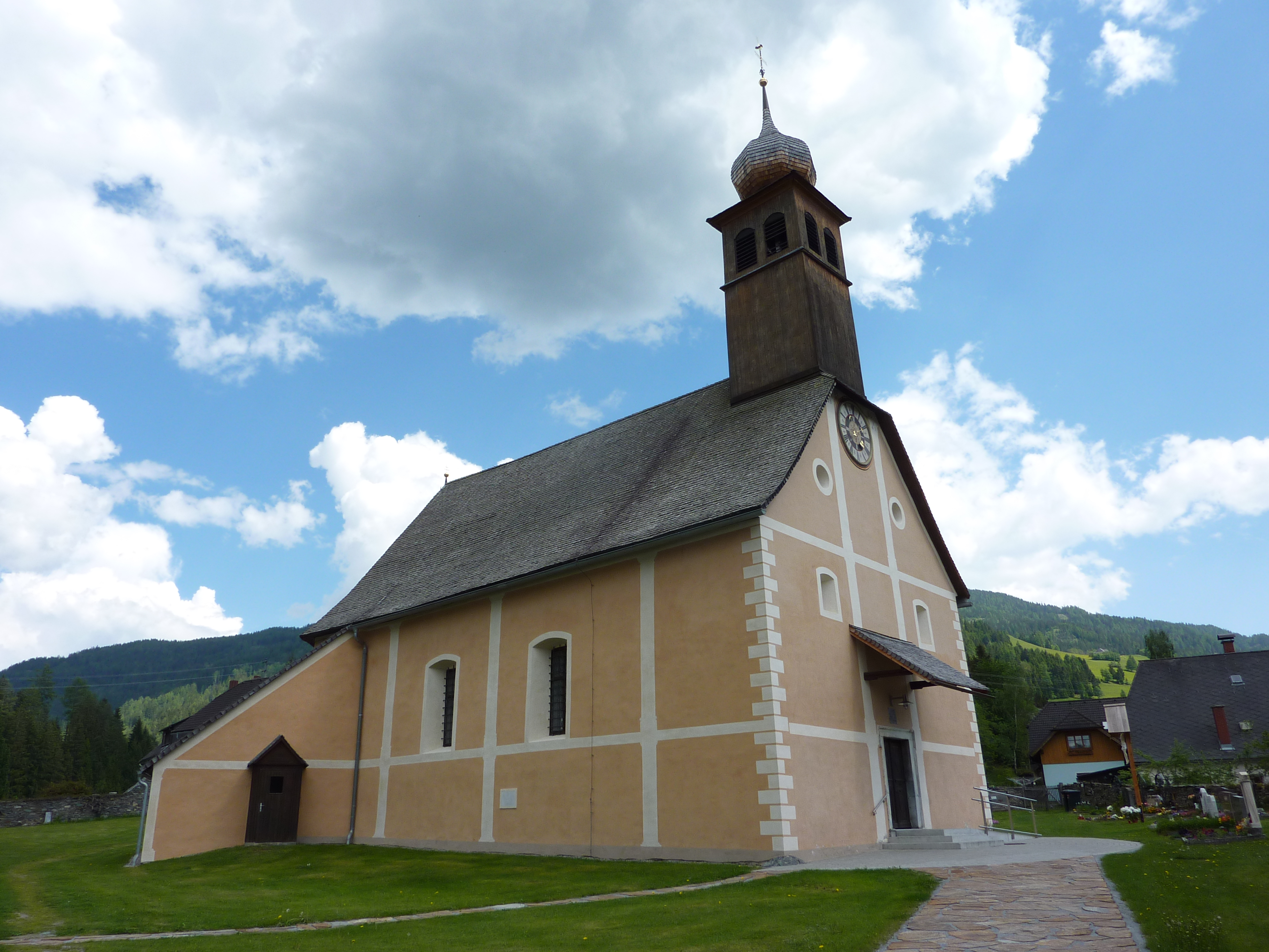 Church of Steirisch Laßnitz in Styria